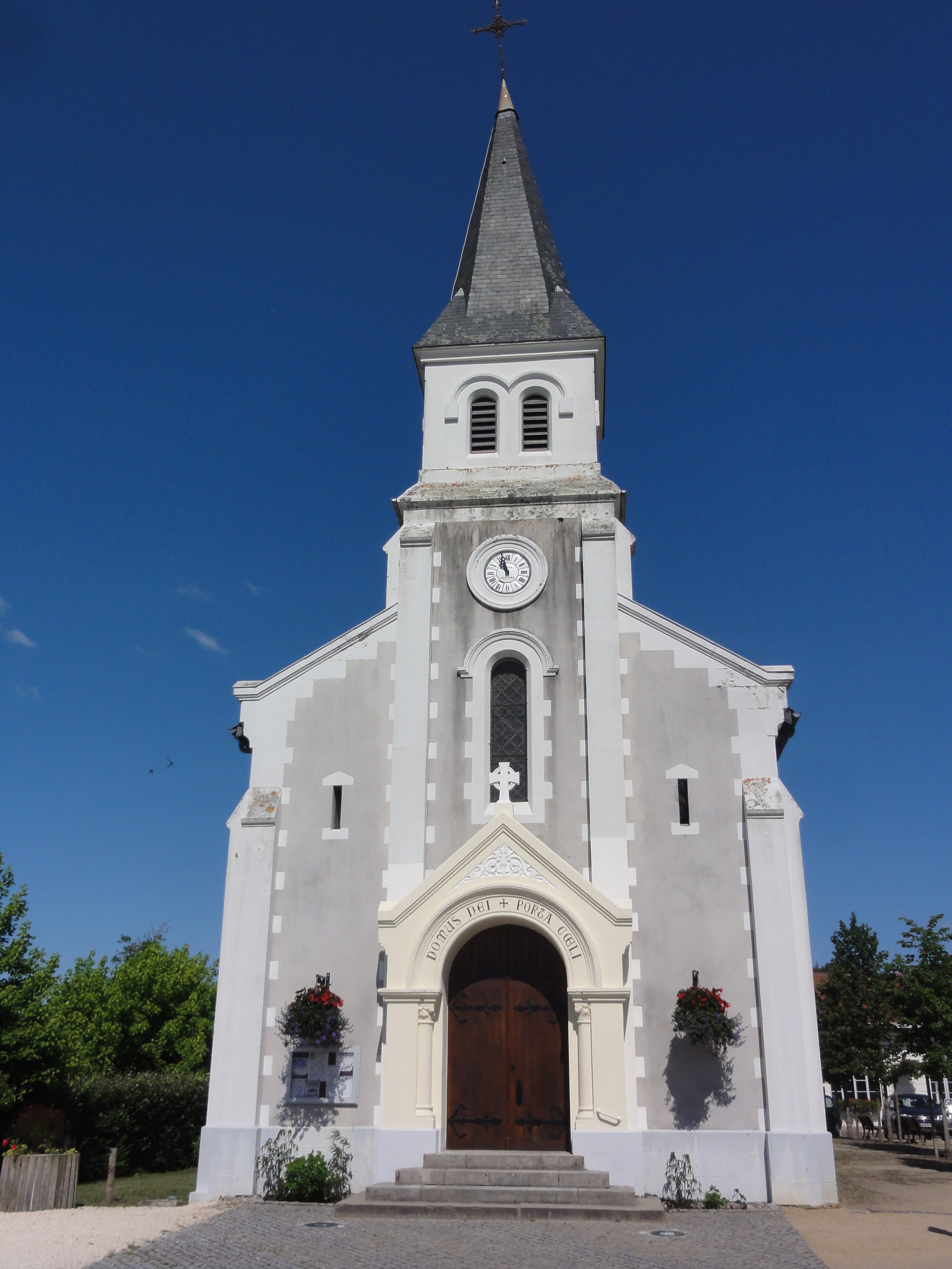 Azur (Landes) élise, façade